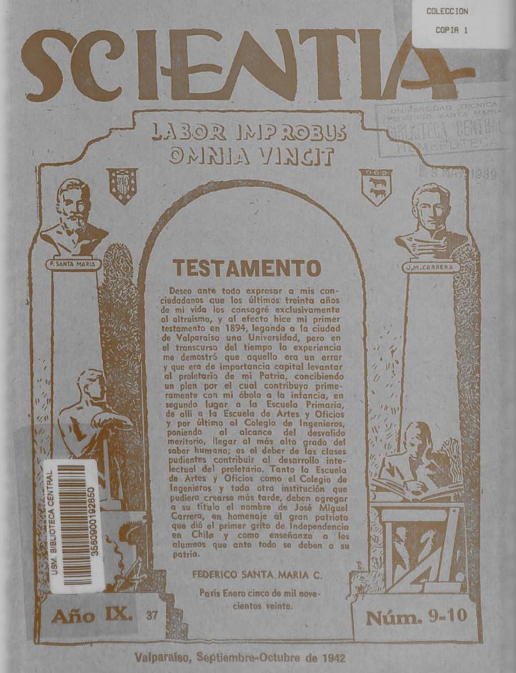 Front page of the Issues 9 and 10 of the Scientia Magazine issued by the Federico Santa Maria Technical University